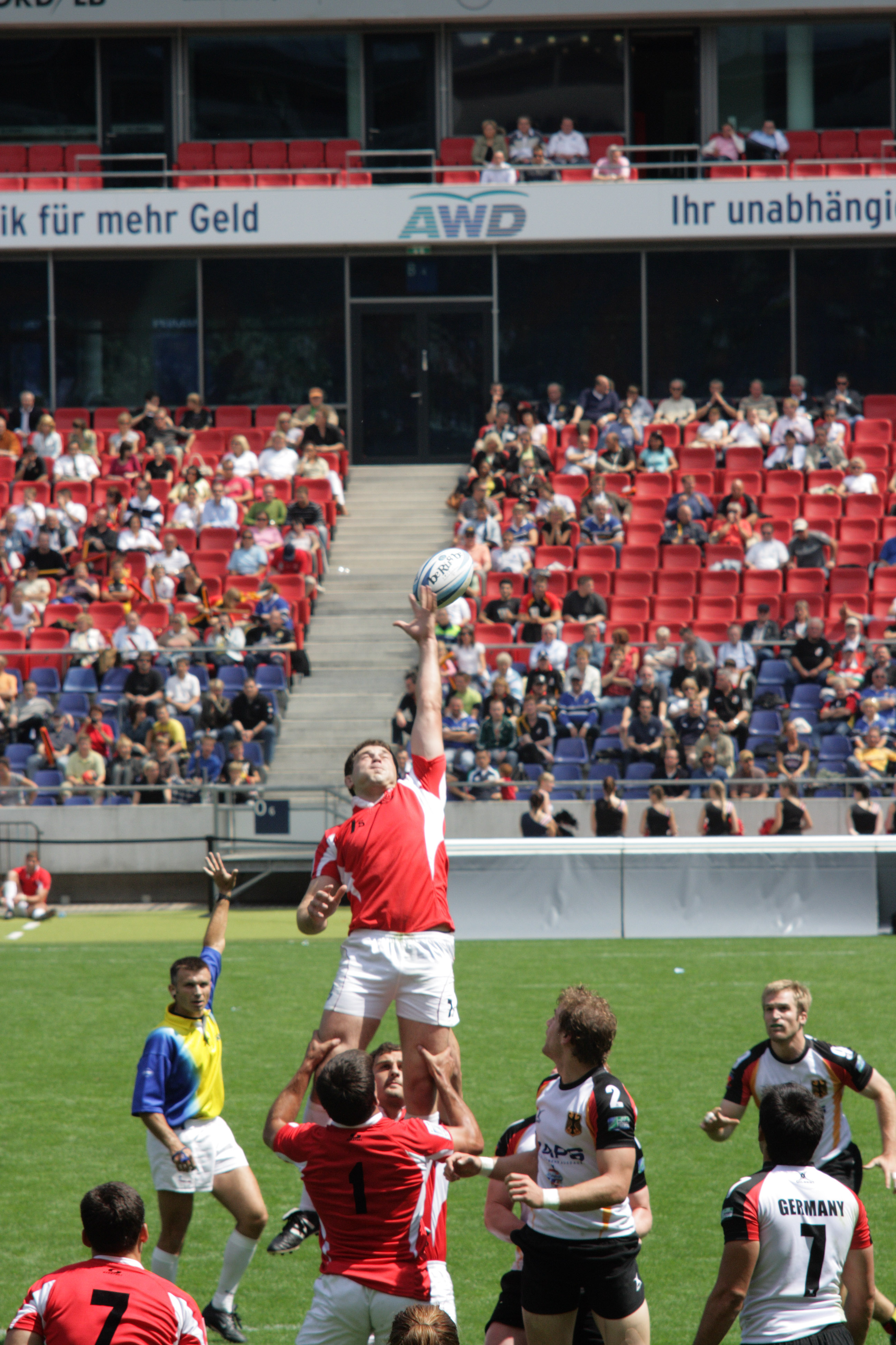 European Sevens 2008 (Hannover Sevens) tournament in Hannover, Germany. Fourth game in group A: Germany vs Georgia. Lineout. Georgia won the game with 0:26 points.